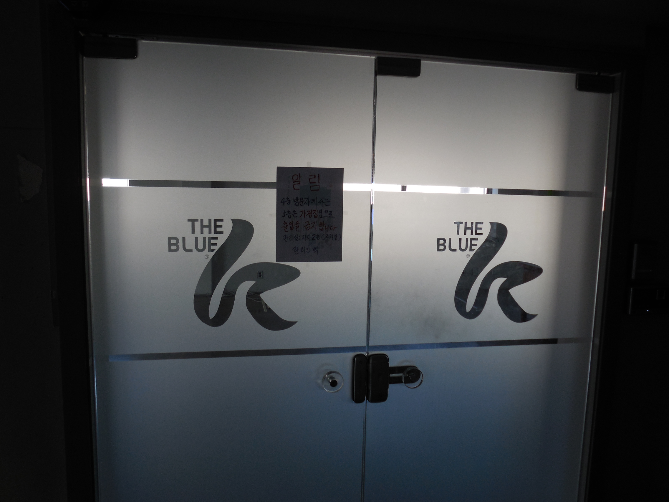 Entrance of Office of THEBLUE K